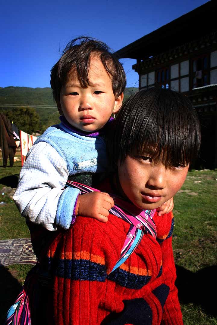 Bhutan